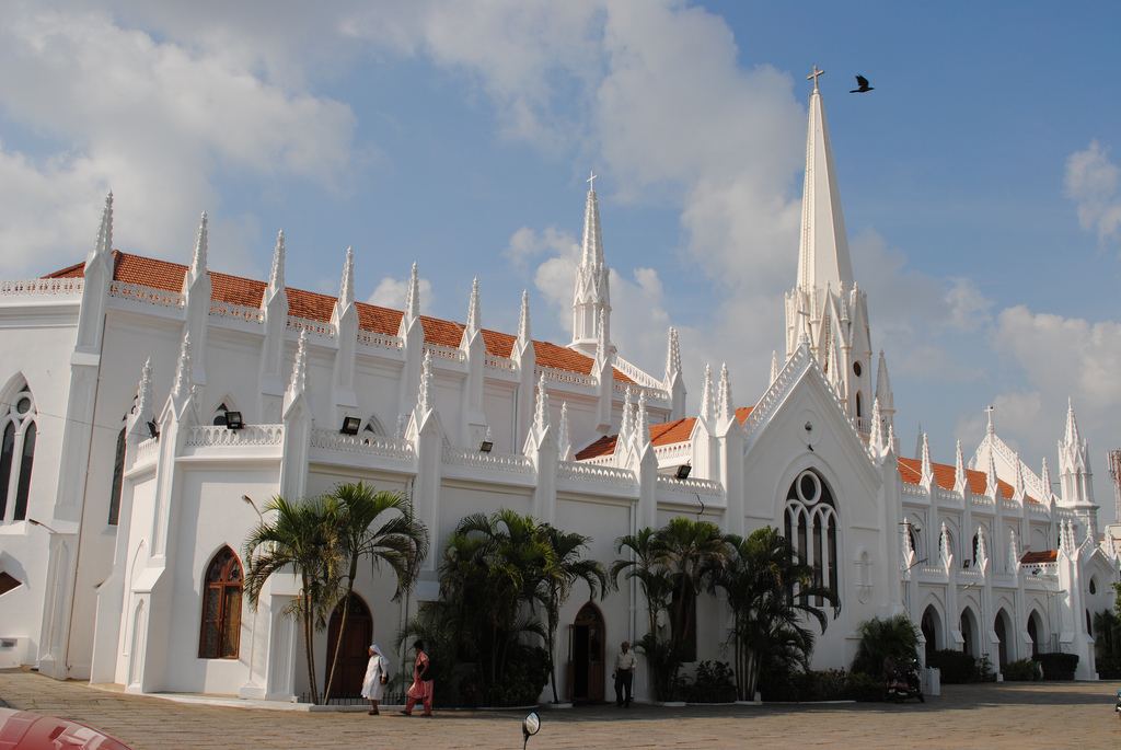 Side view of National shrine of St.Thomas Basilica, Mylapore, Chennai, India. National Shrine of St.Thomas Basilica is built over the tomb of St. Thomas , an apostle of Jesus Christ. It is situated in Mylapore, San Thome, Chennai, india.